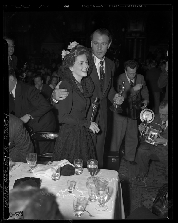 Gary Cooper and Joan Fontaine holding their Oscars at an Academy Awards after party in 1942.